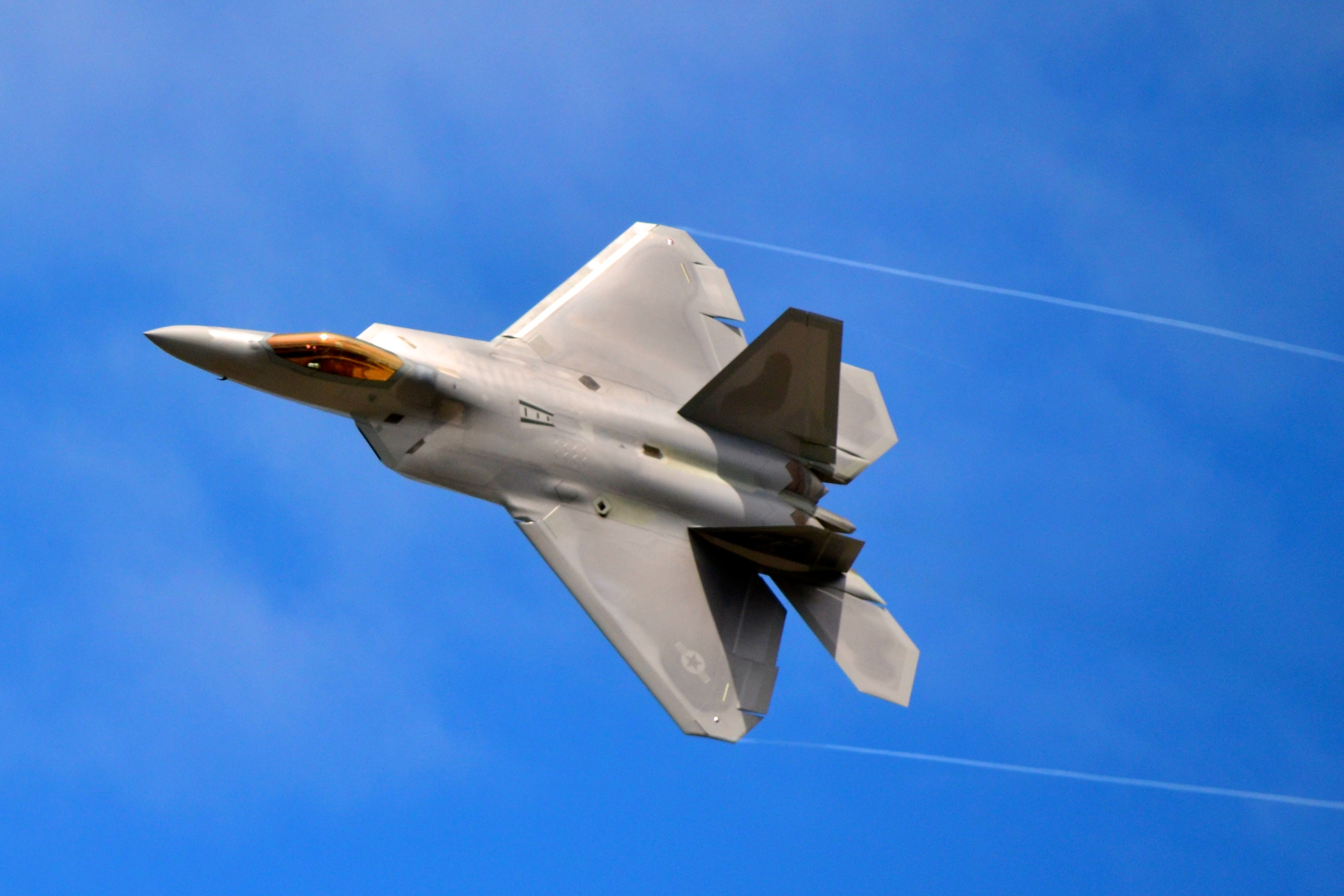 F-22 Raptor Andrews Air-force Base